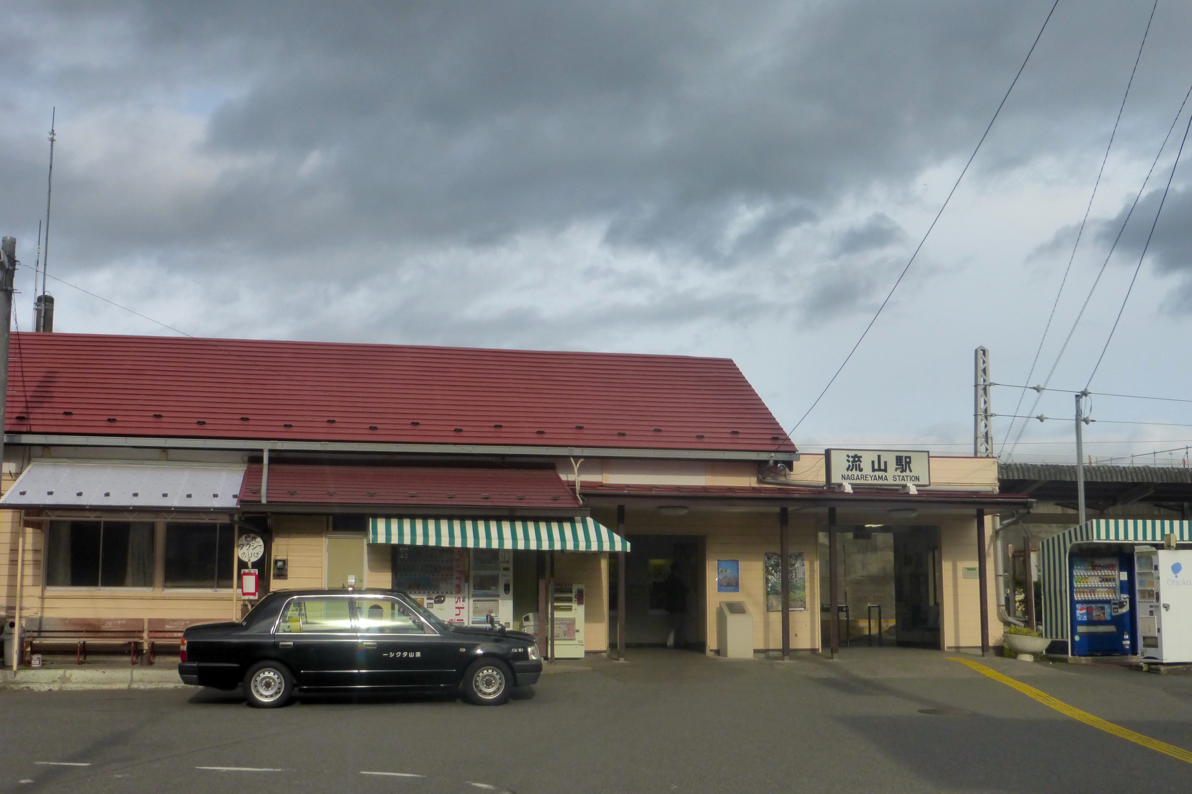 Nagareyama Station in Nagareyama, Chiba Prefecture, Japan